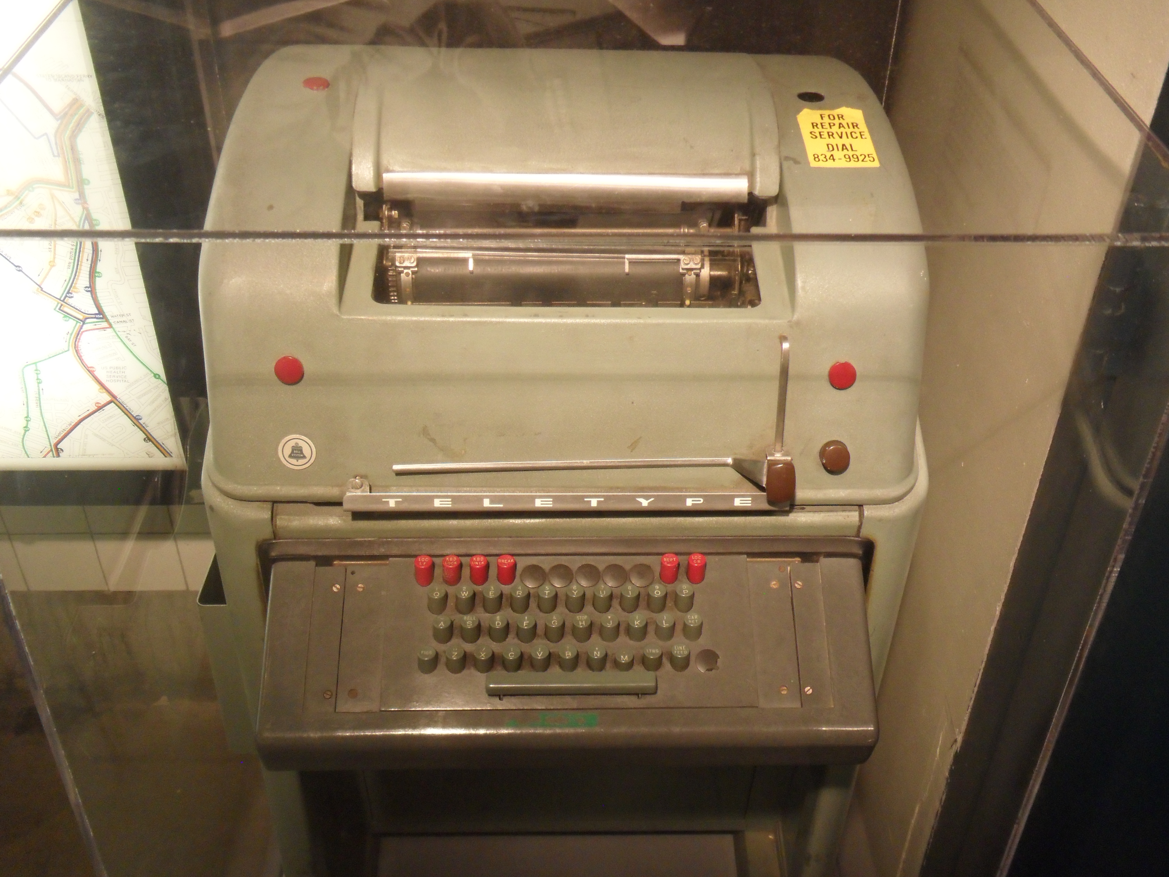 Teletype Model 28 at the New York Transit Museum